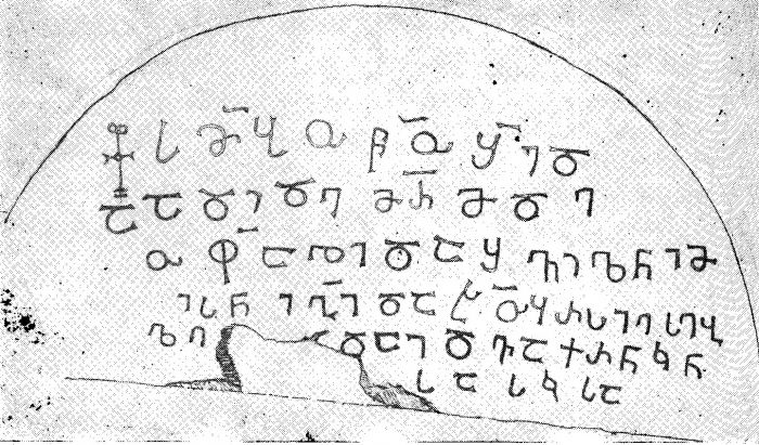 A Georgian inscription from the Koreti church, mentioning the nobleman (eristavi) Giorgi and Khursi and their mother "the queen" Mariam.